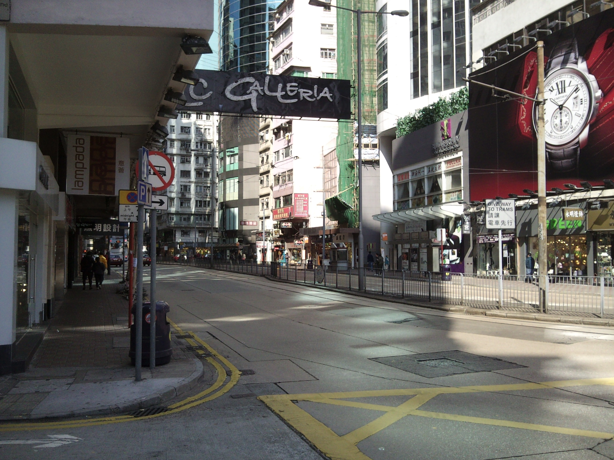 Morrison Hill Road near Lap Tak Lane